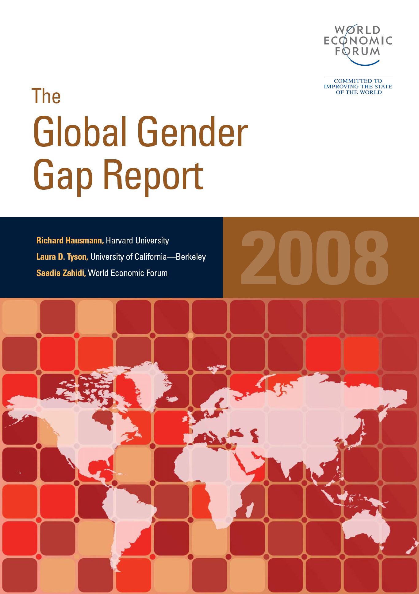 This image is an identification report cover illustration for the report being described in the article